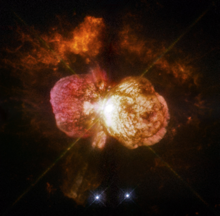 Eta Carinae captured by the Hubble Space Telescope.